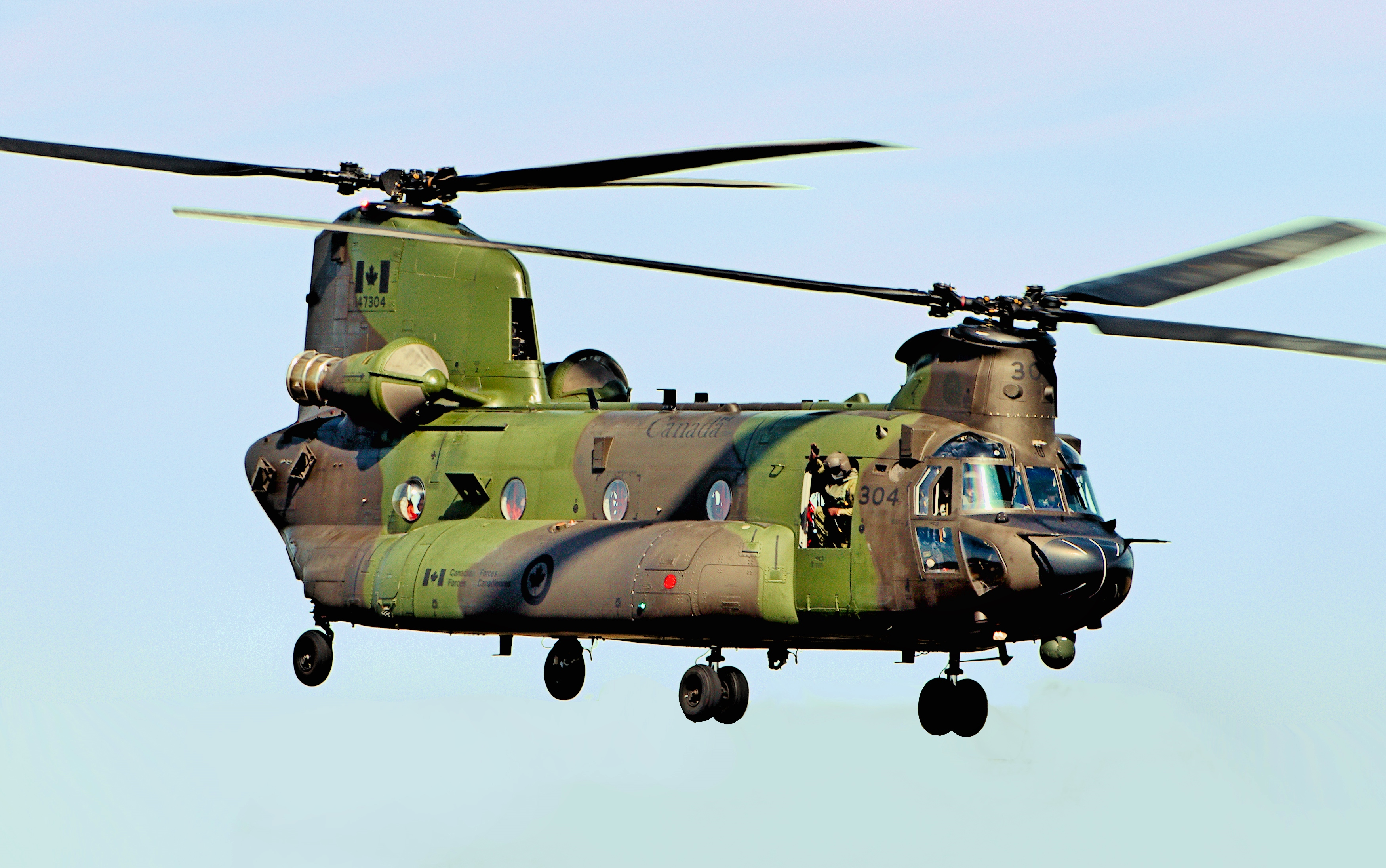 CH-147F Chinook -17 (modified)